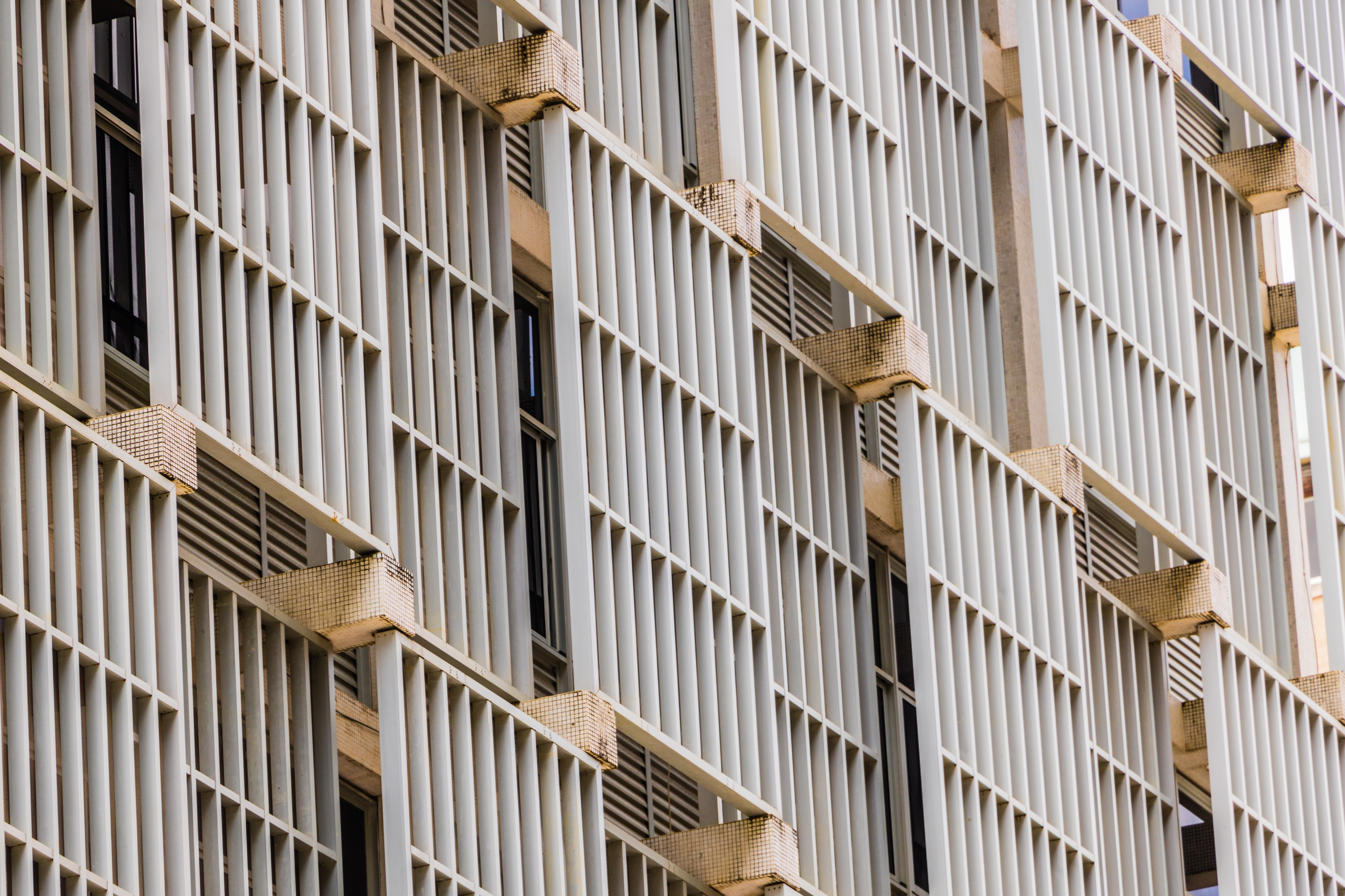 Edifício Caramuru, Salvador, Bahia, Brazil, 1951. Architect: Paulo Antunes Ribeiro (1905–1973), originally built for Prudência Capitalização.